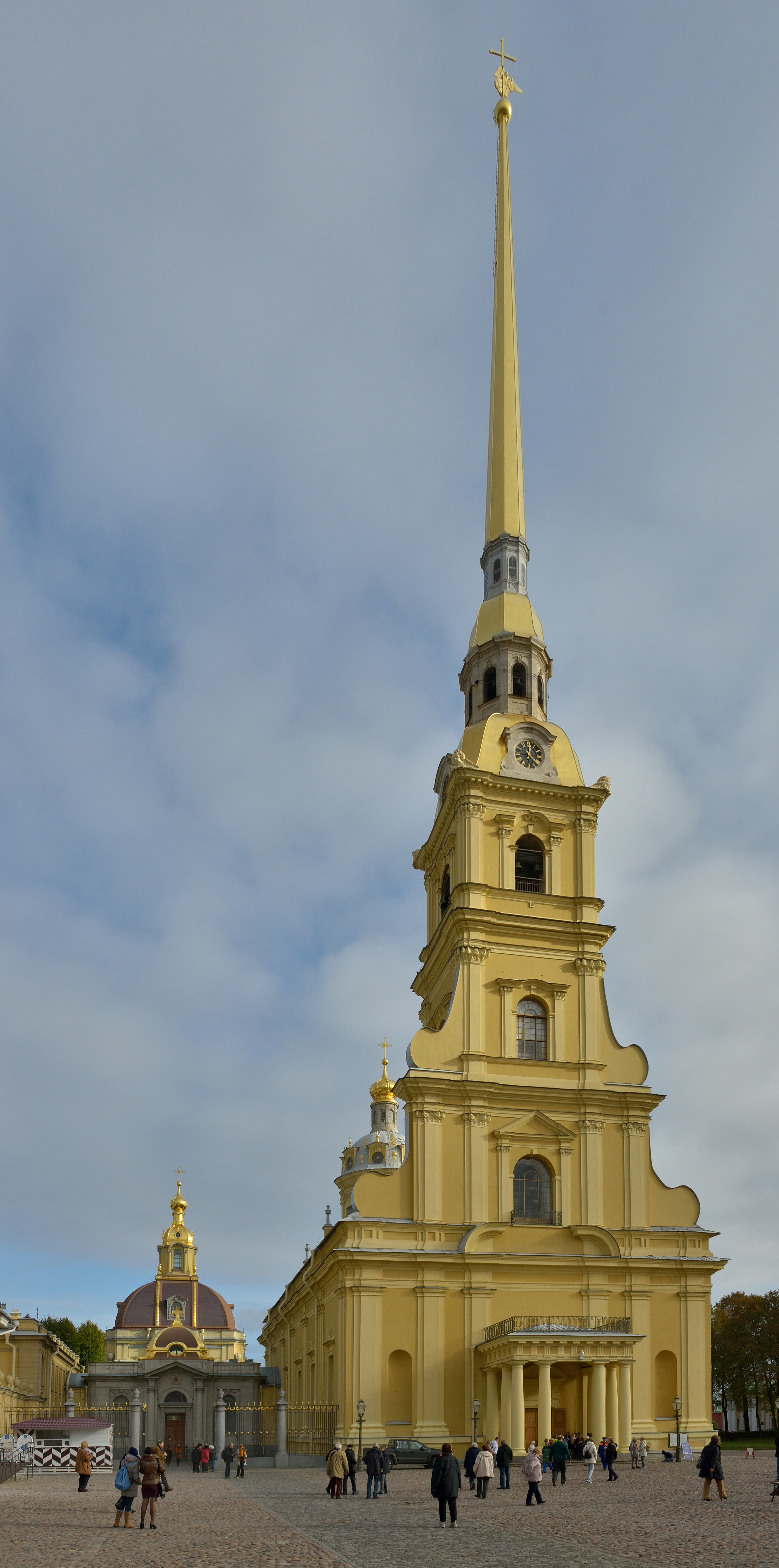 Saint Peter and Paul Cathedral in Saint Petersburg